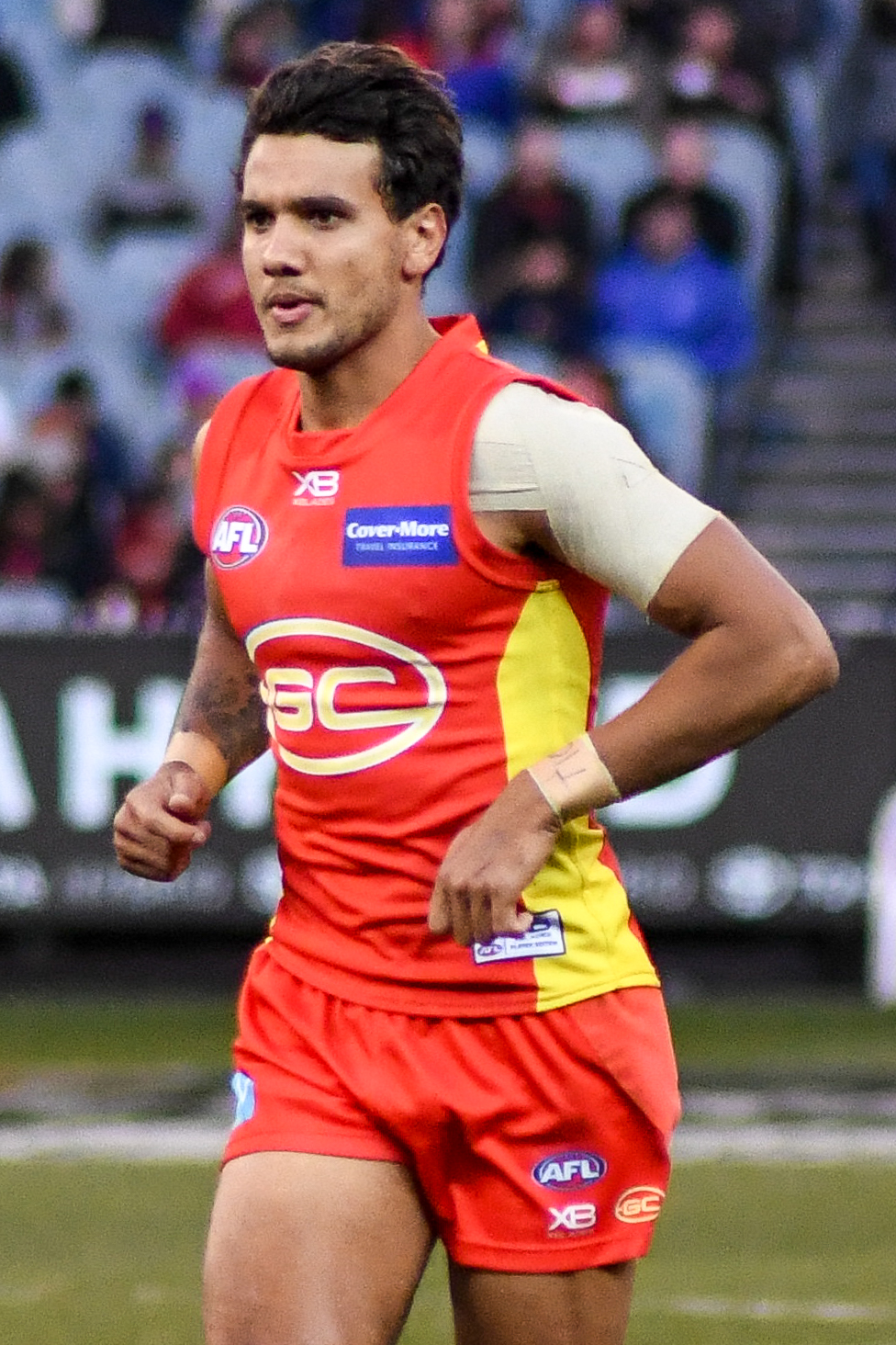 Callum Ah Chee of Gold Coast during the 2018 AFL round 20 match between Melbourne and Gold Coast at the Melbourne Cricket Ground on Sunday, 5 August 2018 in Melbourne, Victoria.